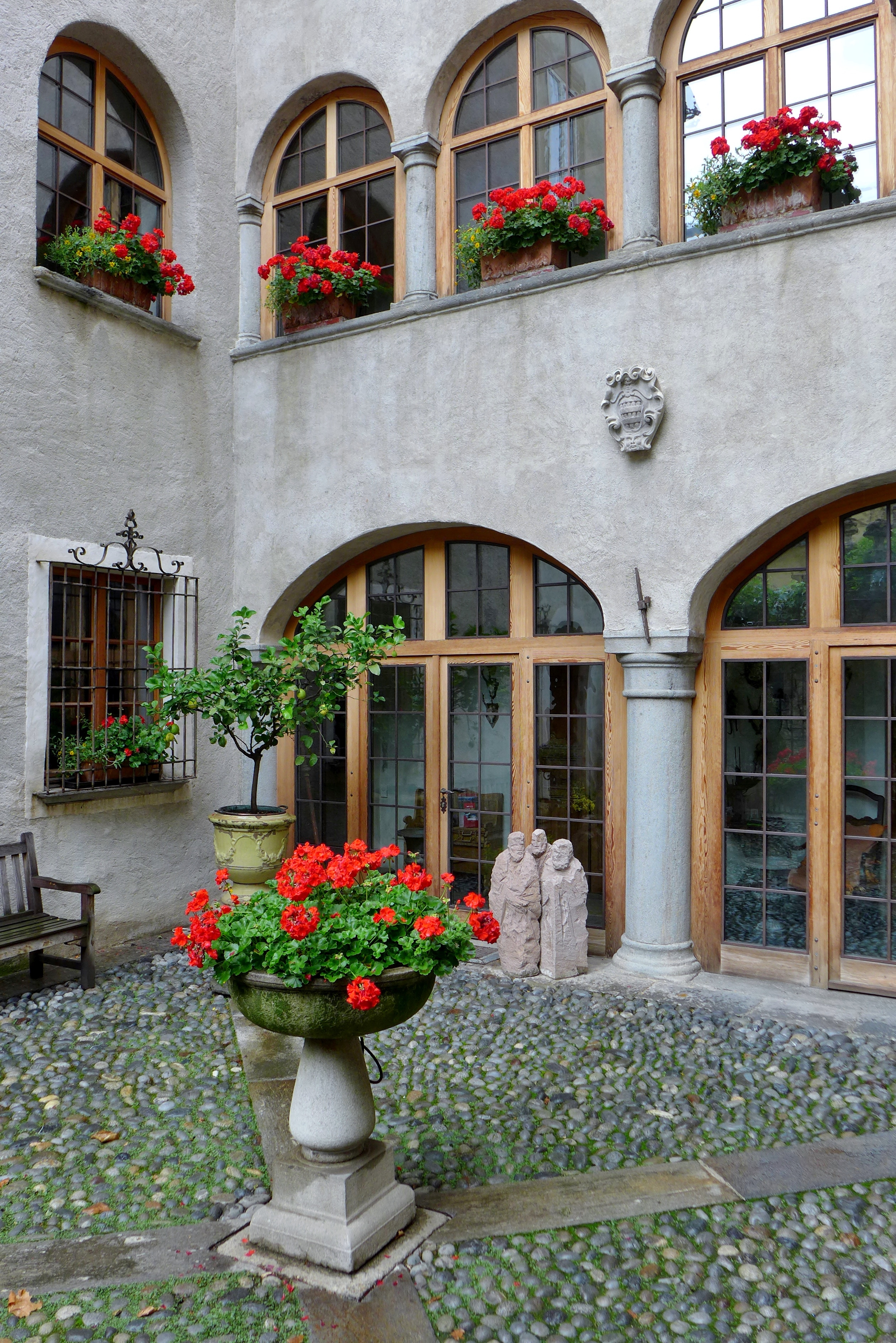 View of the courtyard of a building in Via Antonio Caimi, Tirano, Italy.